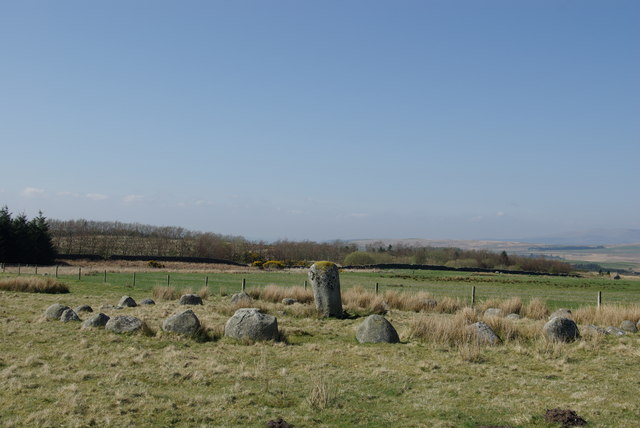 Stone Circle south of Old Military Road A circle of 28 stones 50ft in diameter with the centre stone 6ft high. A gap in the SW suggests the possibility of an additional stone, now missing.